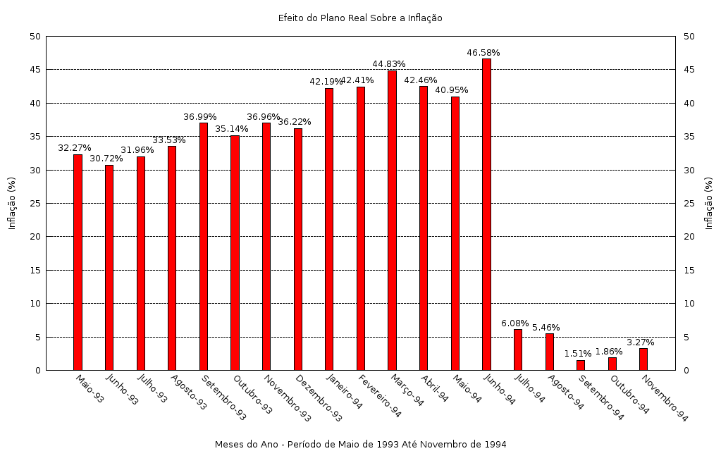 Plano Real's Effect on Inflation During the Period of May, 1993, Until November, 1994.